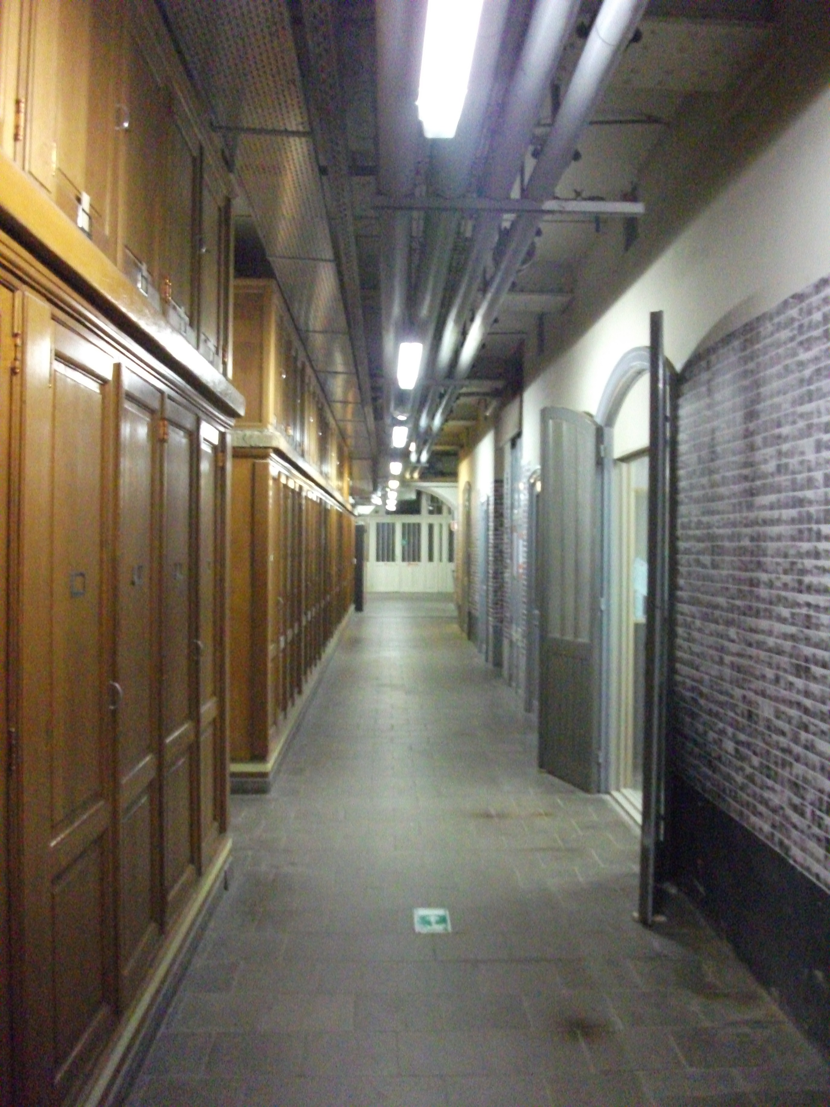 A view down on the corridors of the Royal Museum for Central Africa, Brussels, Belgium. Taken during the "Uncensored" exhibition.